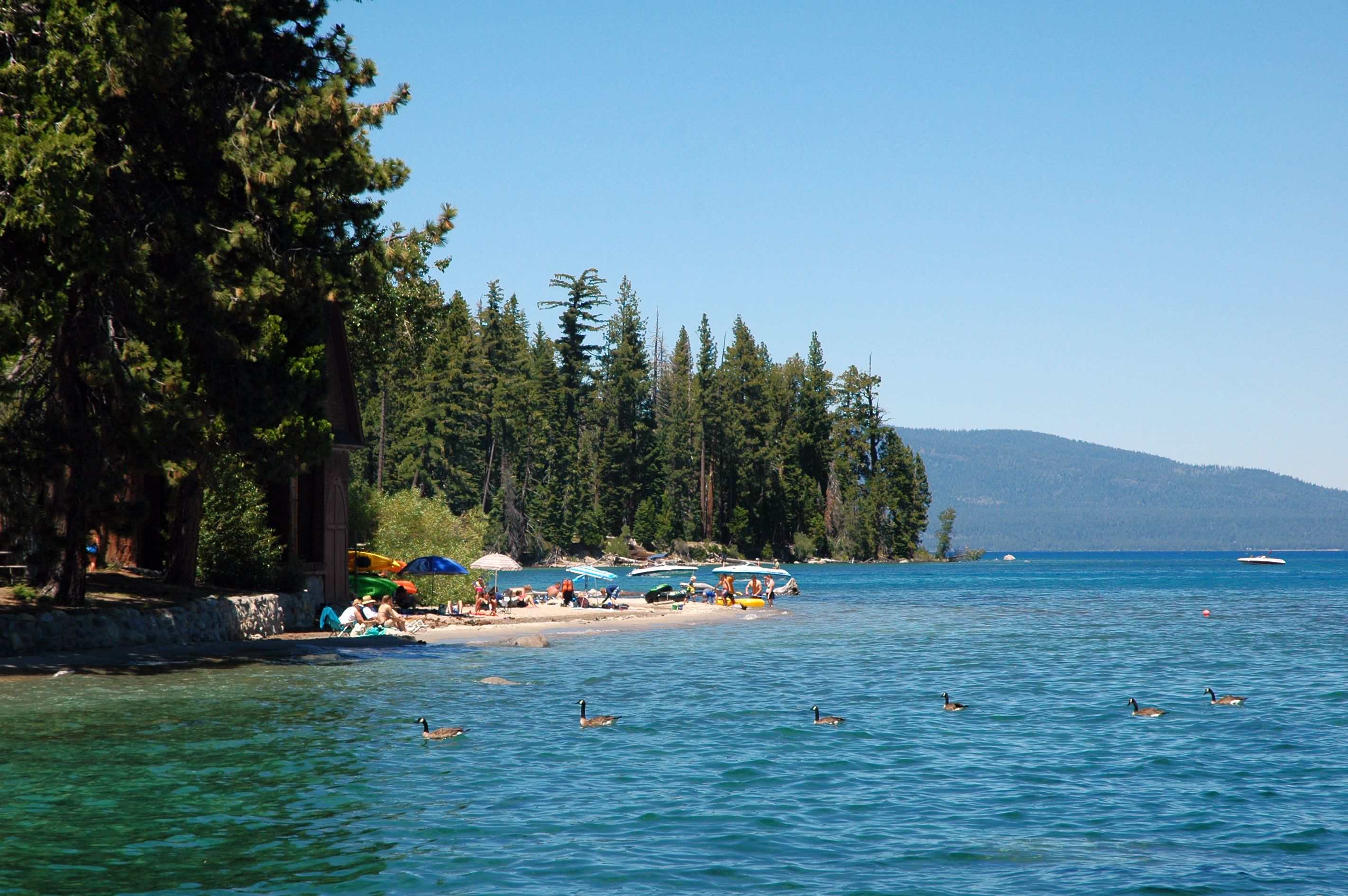 People on the beach at Lake Tahoe, at the Sugar Pine Point State Park, California. The wooden structure on the left is the North Boat House.